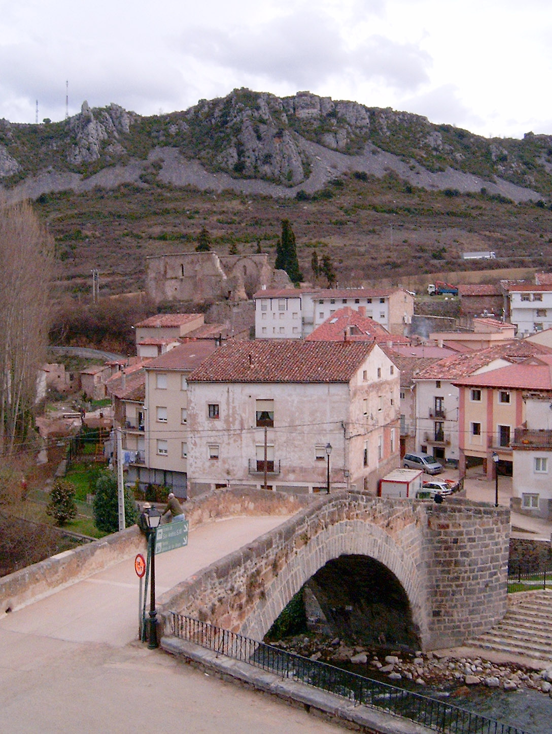 Description: Bridge over the river Iregua, in Torrecilla en Cameros, La Rioja, Spain. Photographer: Javier Mediavilla Ezquibela Date: March 27, 2005.